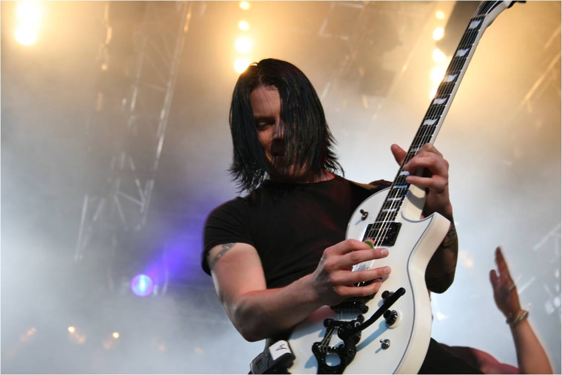 Queensrÿche at Norway Rock Festival 2010